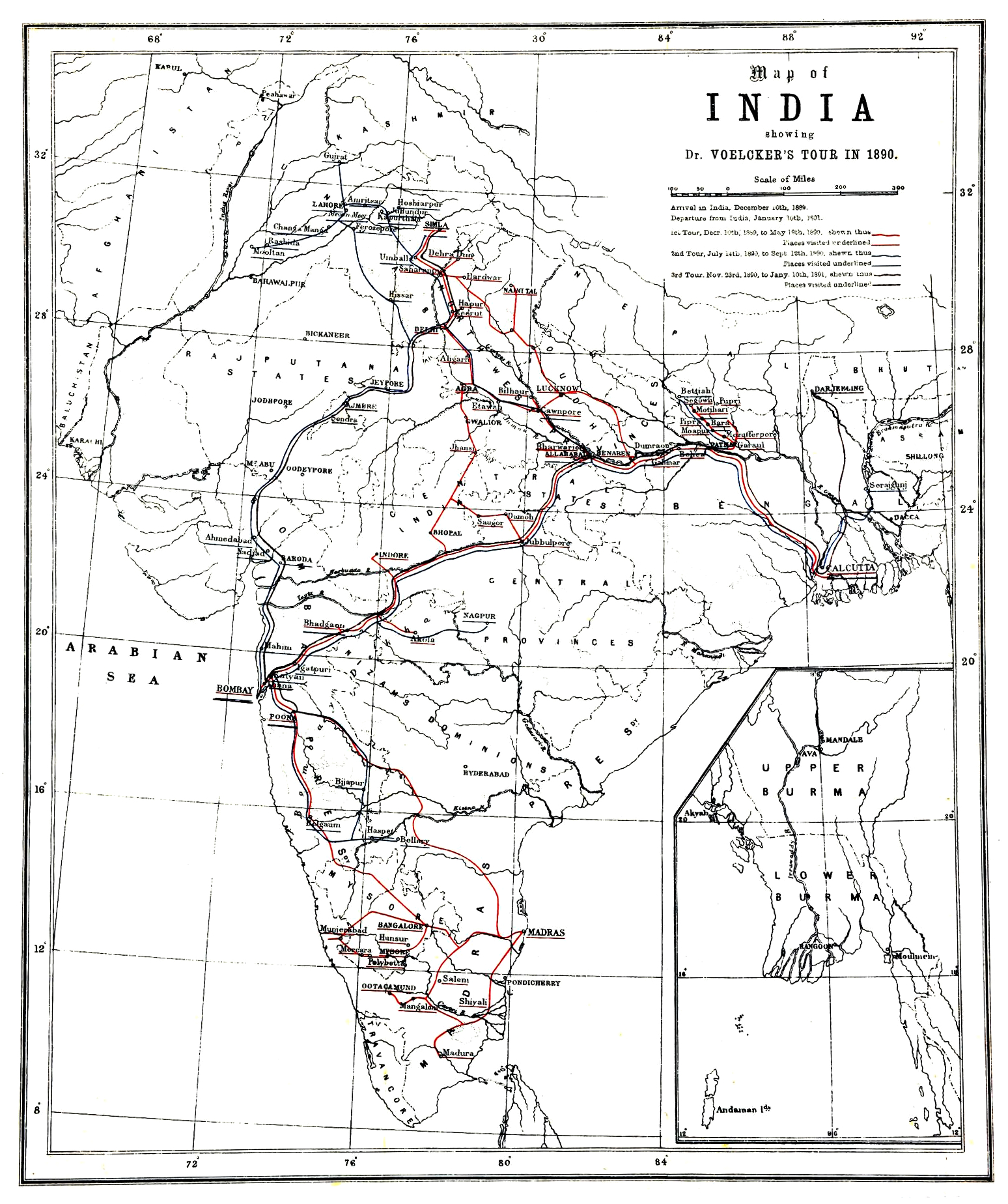 Route taken by Voelcker in India 1891